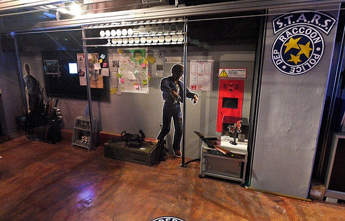 Cozinhando Fantasias Member since 2012